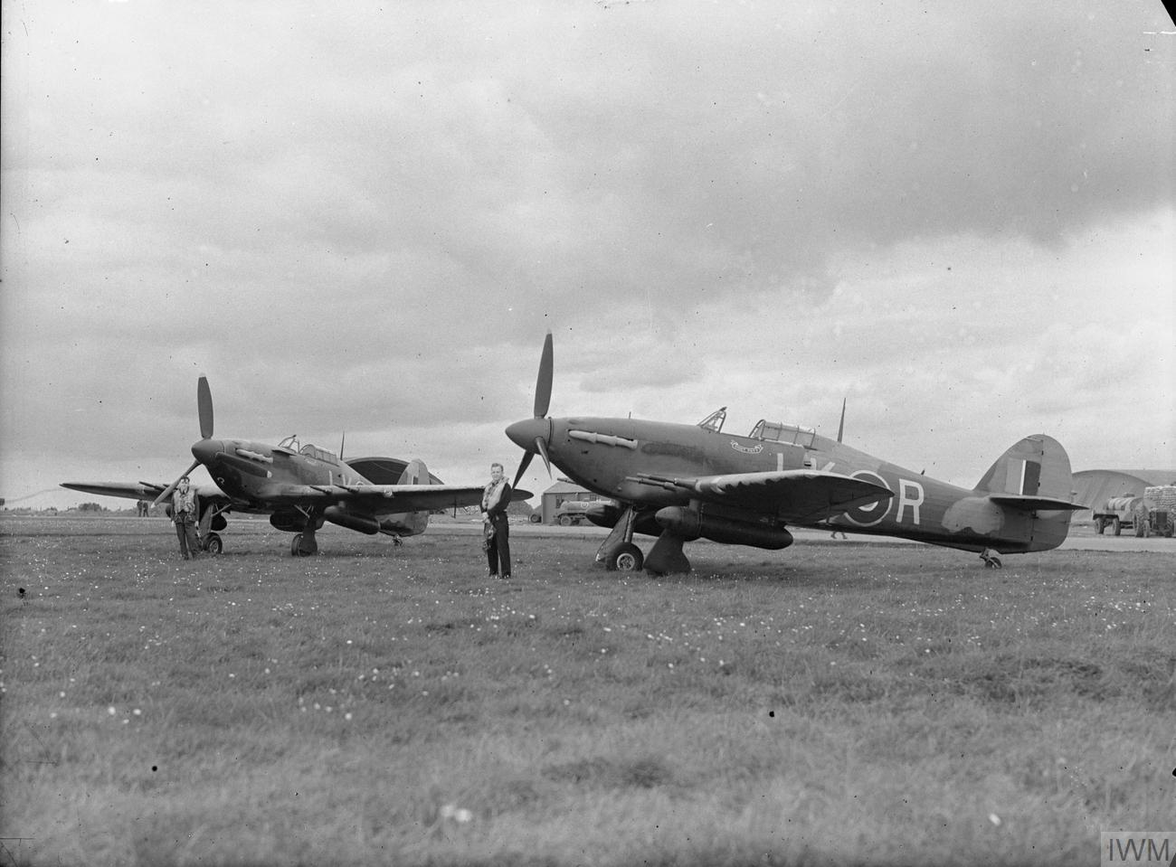 Aircraft of the Royal Air Force 1939-1945- Hawker Hurricane. Two Hurricane Mark IIC night fighters of No. 87 Squadron RAF, at Charmy Down, Somerset. They are: (left); HL864 ‘LK-?’ “Nightingale”, with pilot, Pilot Officer F W Mitchell, and (right); HL865 ‘LK-R’ “Night Duty”, with pilot, Sergeant B Bawden. Both aircraft carry 44-gallon underwing fuel tanks.